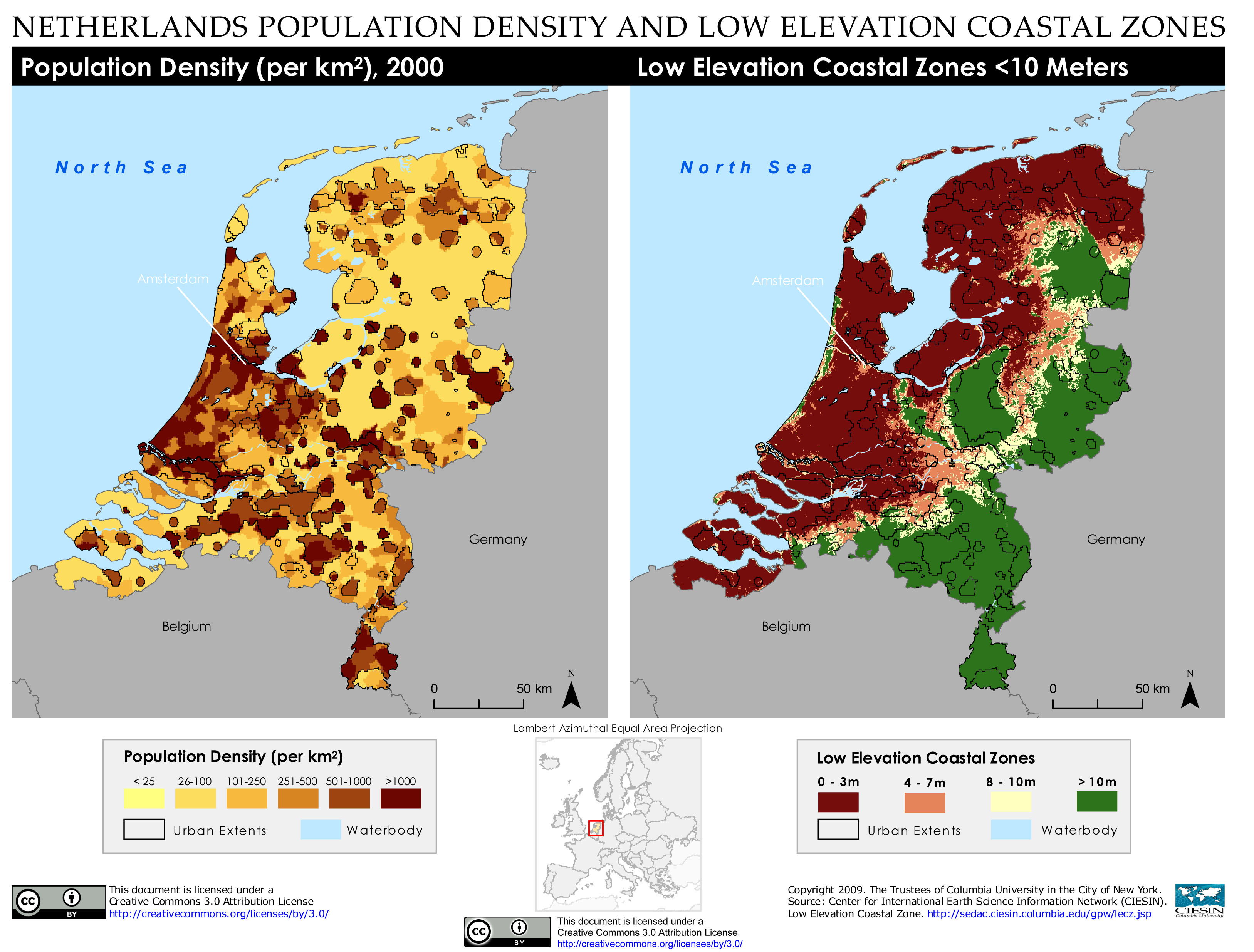 Netherlands: Population Density and Low Elevation Coastal Zones